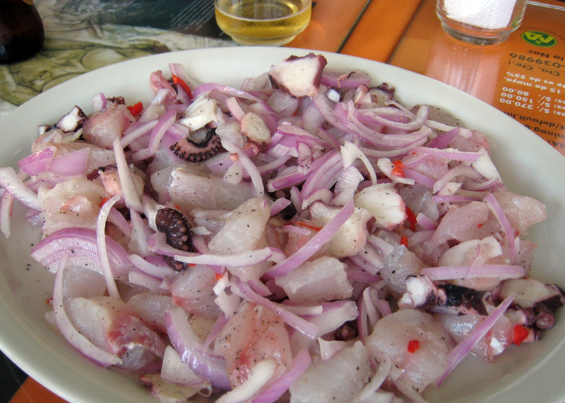 Cebiche de Lenguado (from Chez Wong at Sanquay)